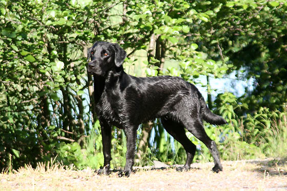 Labrador retriever